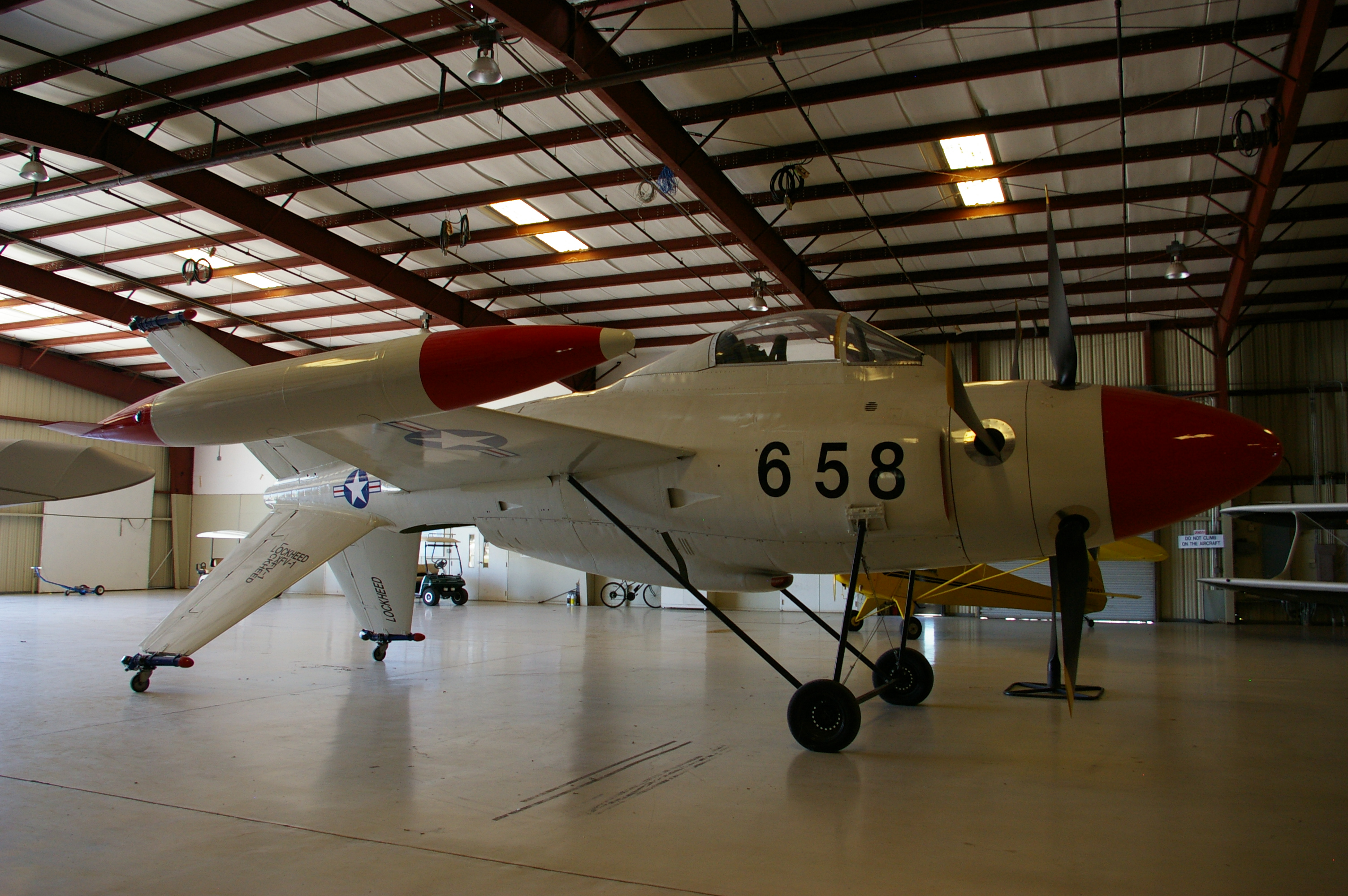 Photo of Lockheed XFV-1 shot at Sun and Fun Museum